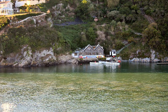 Gannel Ferry. A passenger ferry operates in summer between Fern Pit on the Newquay side, to Crantock beach. This is a view from the Crantock side of the Gannel.